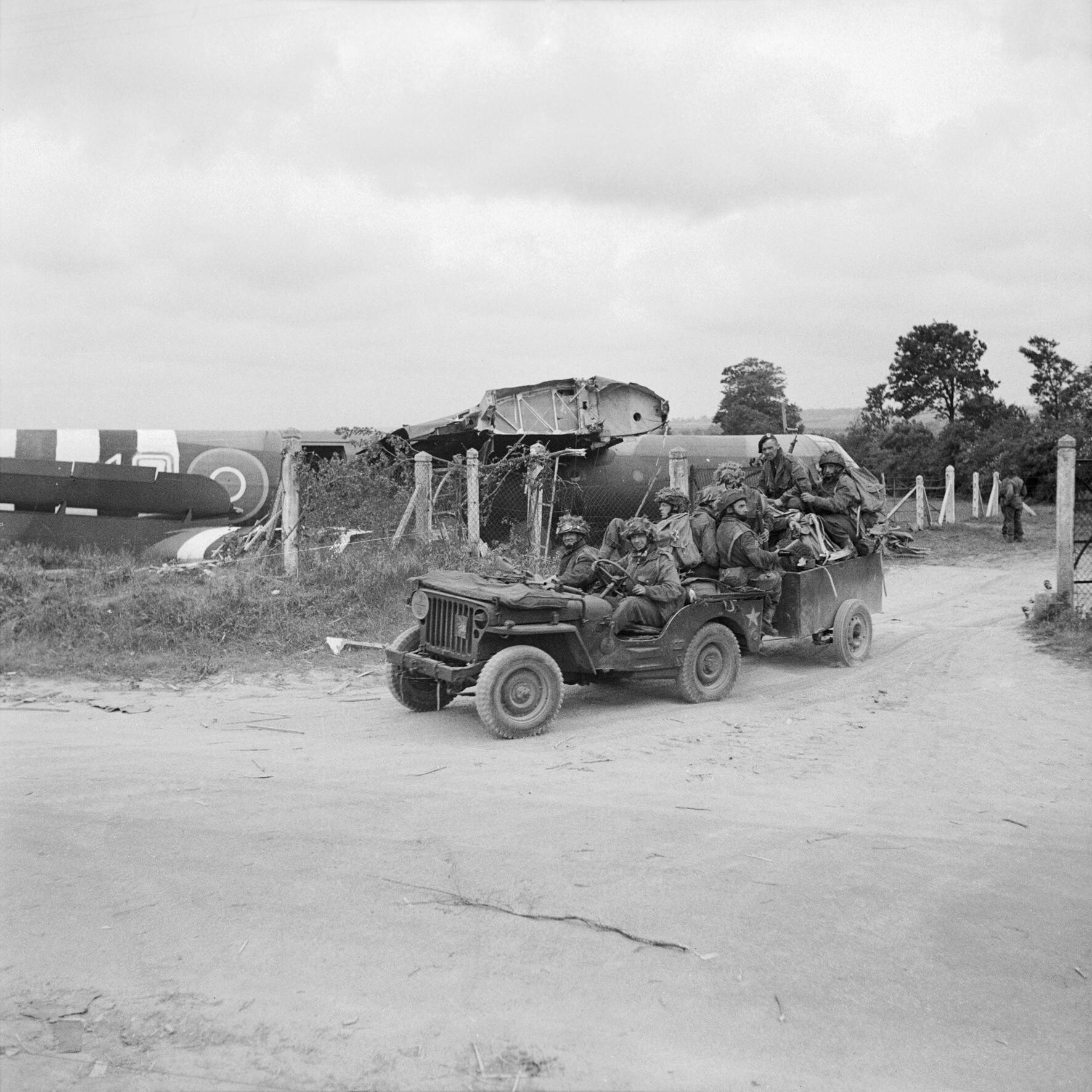 OPERATION OVERLORD (THE NORMANDY LANDINGS): D-DAY 6 JUNE 1944 The Airborne Assault: Riflemen of 1st Battalion Royal Ulster Rifles, 6th Airlanding Brigade, 6th Airborne Division, aboard a jeep and trailer, driving off Landing Zone 'N' past a crashed Airspeed Horsa glider on the evening of 6 June